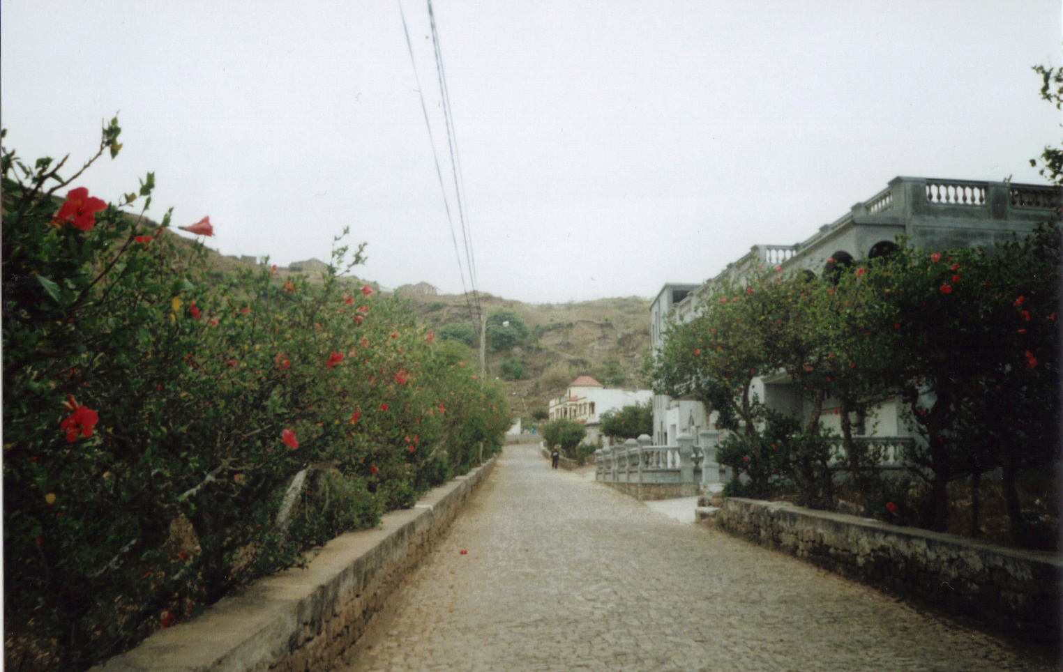 Cova Joana, Main Street. Brava, Cabo Verde